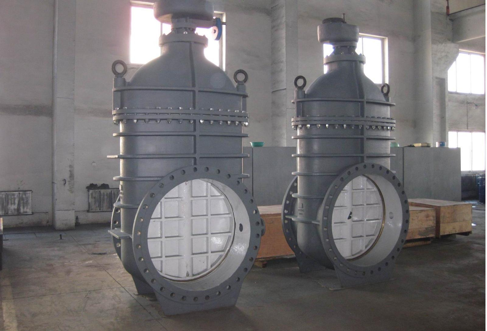 6 Moly Gate Valve are usually found in highly corrosive petrochemical processes.